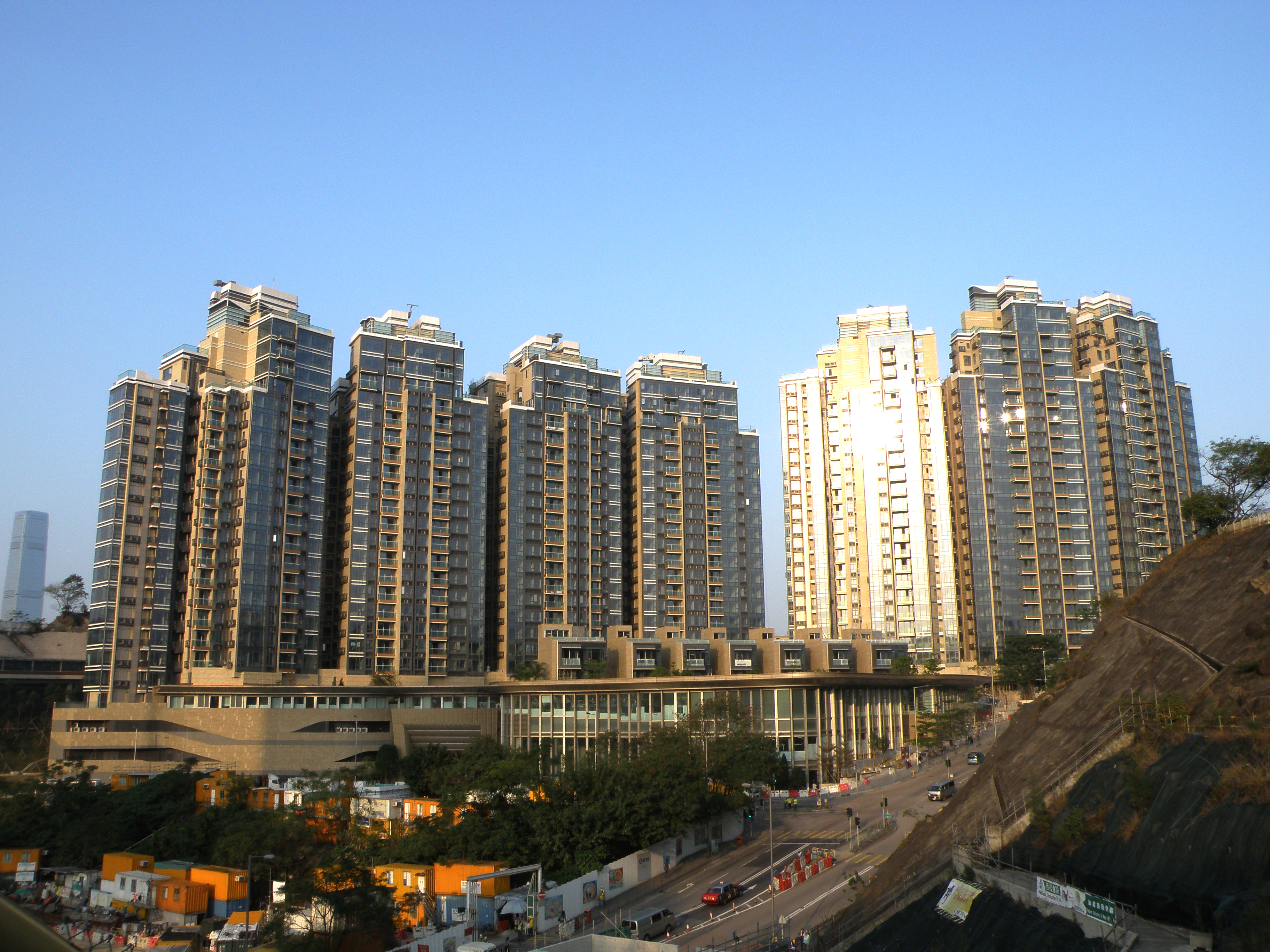 Ultima in Ho Man Tin, Hong Kong.